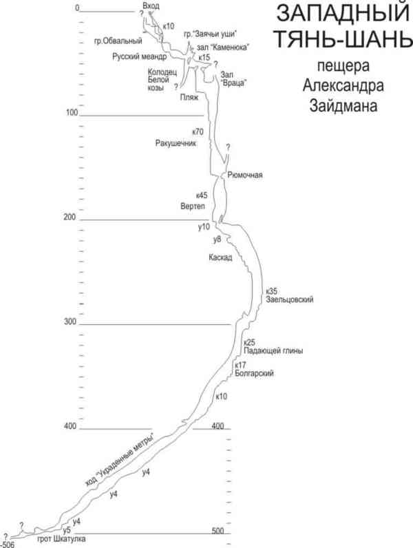 Scheme of Zaydman cave.